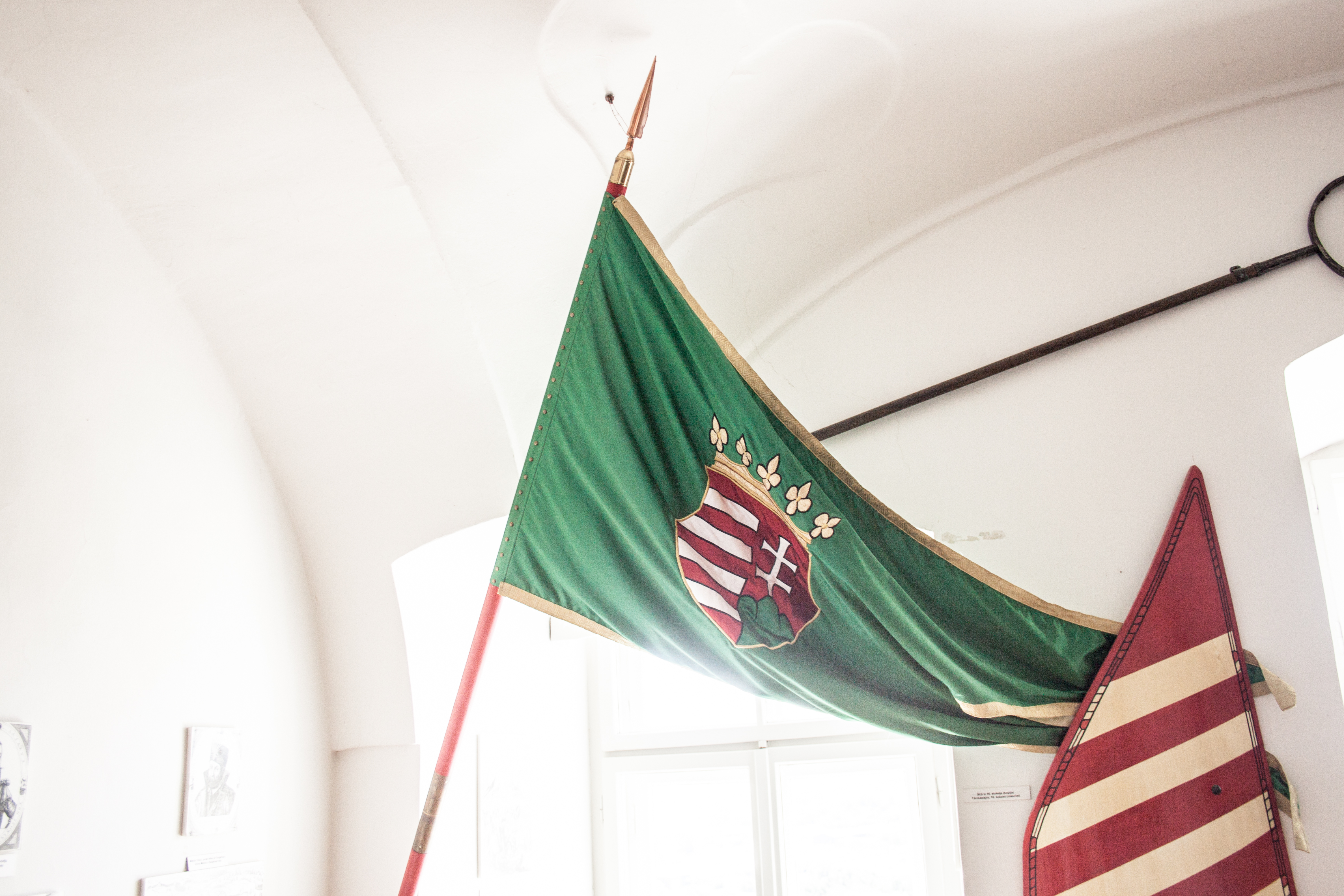 Flag of Miklós Zrínyi, reconstruction